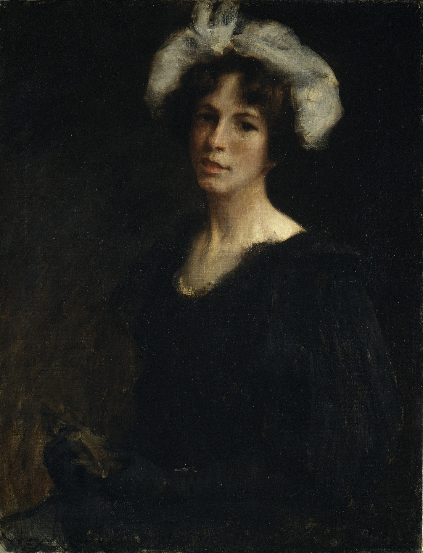 Bessie Potter Artist: William Merritt Chase (American, Williamsburg, Indiana 1849–1916 New York) Date: ca. 1895 Medium: Oil on canvas Dimensions: 32 x 25 5/8 in. (81.3 x 65.1 cm) Classification: Paintings Credit Line: Bequest of Bessie Potter Vonnoh Keyes, 1954